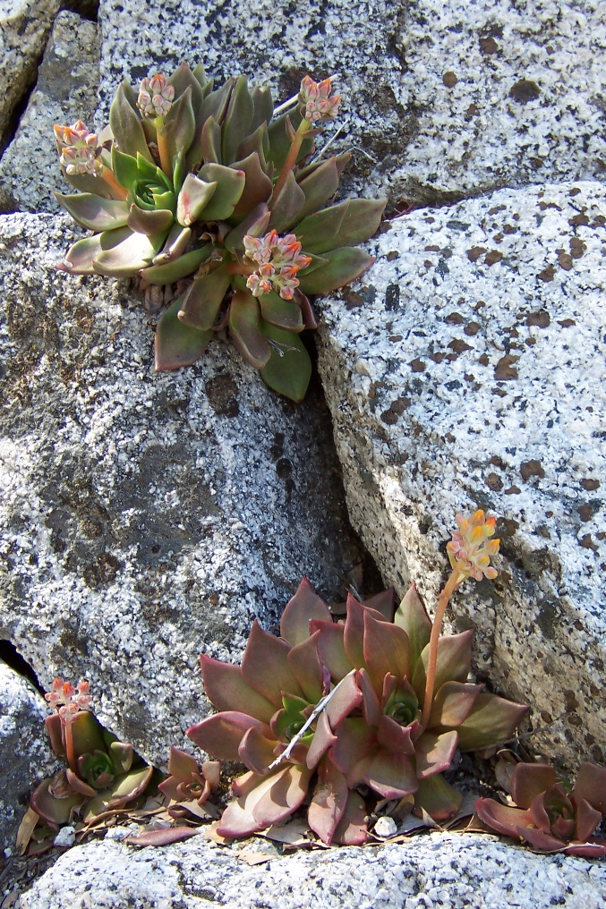 Dudleya cymosa (former Echeveria) succulent plant growing on granite (elevation c. 2,000 metres (6,600 ft). In Tenaya Canyon, Yosemite National Park, California.